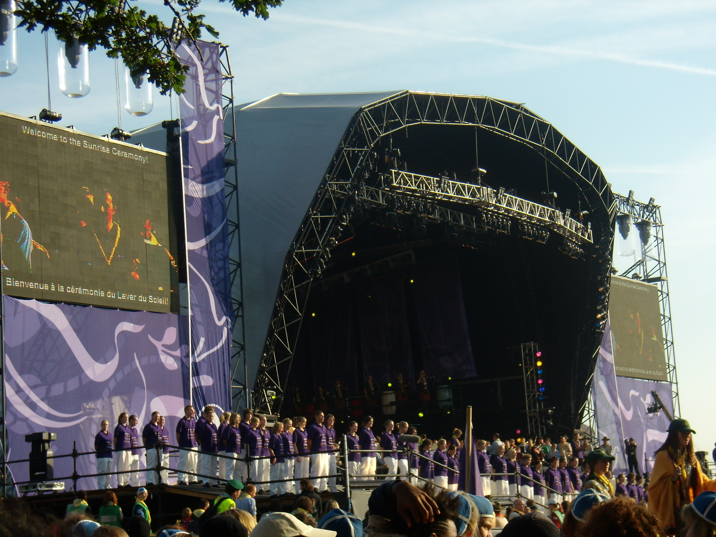 Photograph taken at the sunrise ceremony at the 21st world scout jamboree on the 1st of August 2007